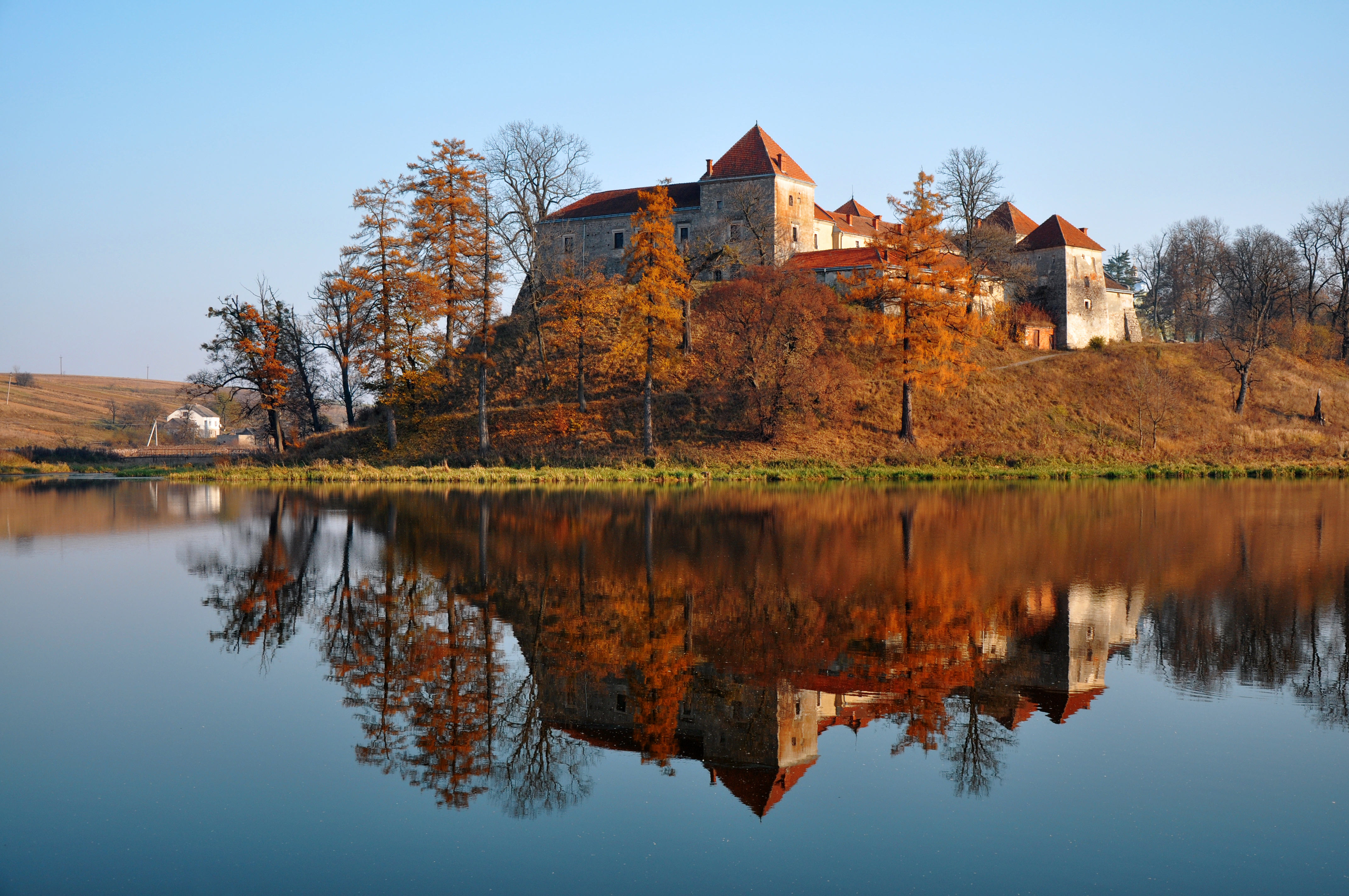 Svirzh Castle